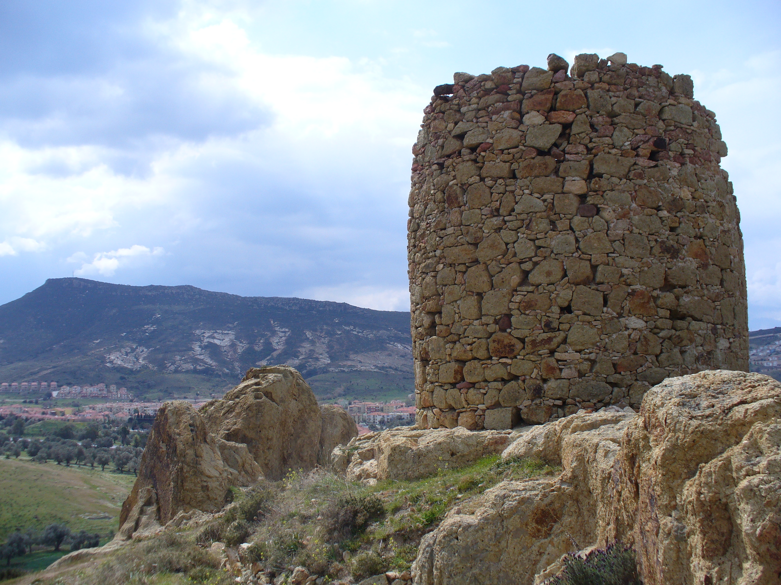 Remains of a stone windmill on the summit of a hill overlooking Foça in Turkey's Aegean region. From what I remember, the windmill was built in the 18th century. In the background are mountains.